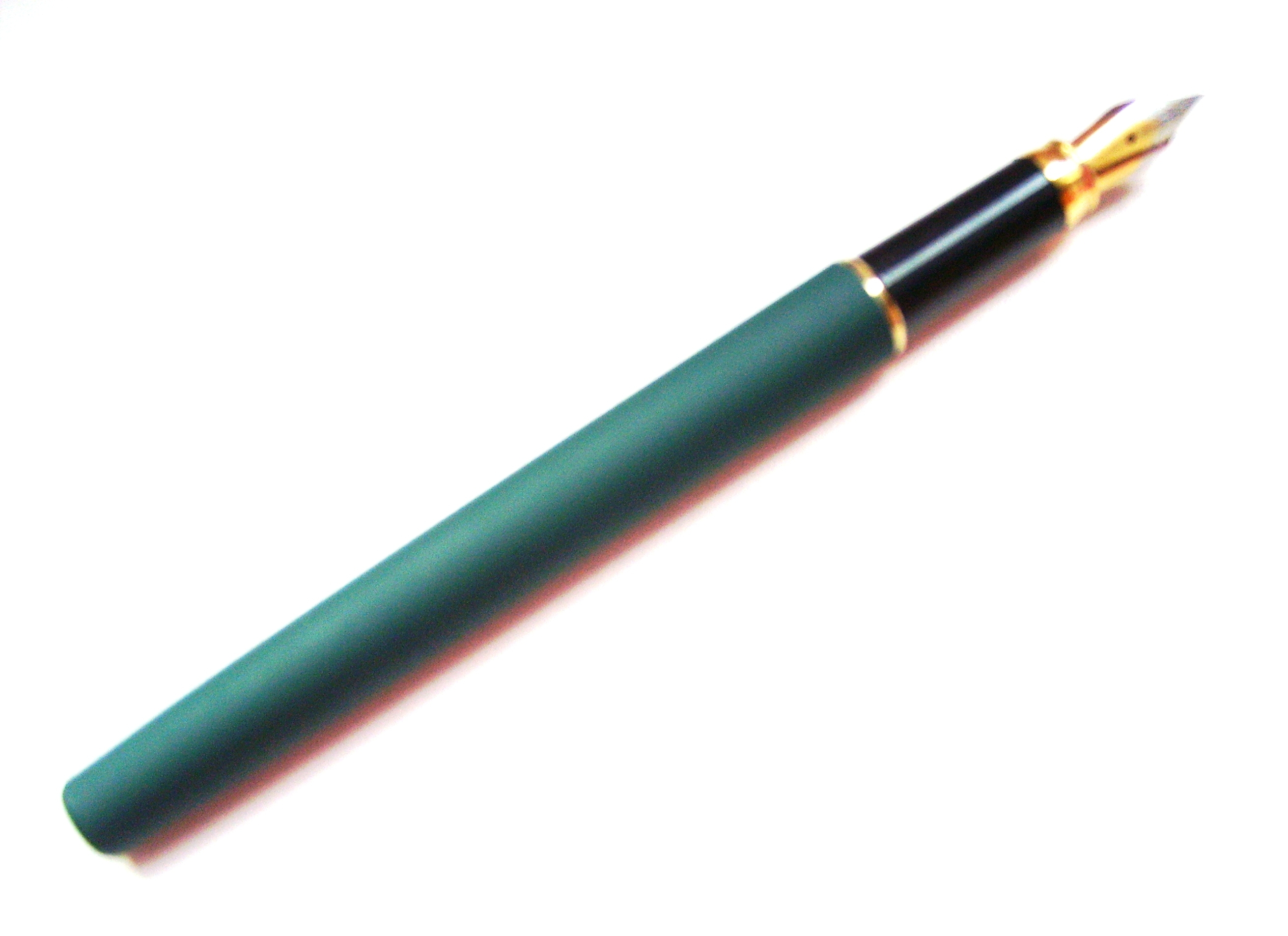 Eternal pen, author Marcin "Martixx" Kuczer